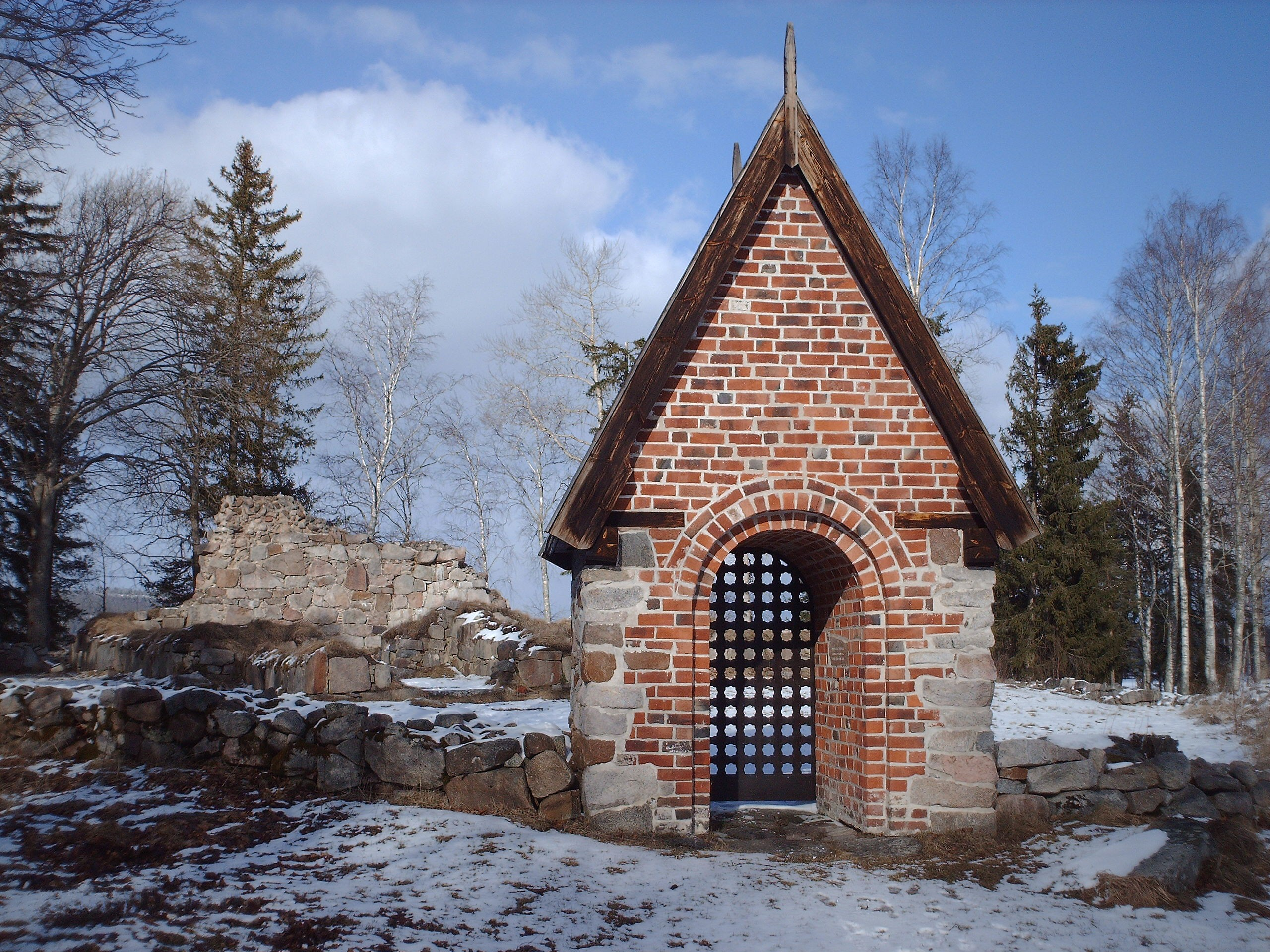 Skog old church, Sweden.